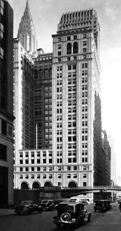 An image of the Pershing Square Building, located on Park Avenue between East 41st and 42nd Streets in midtown Manhattan, New York City. In the foreground is 41st Street, looking east, the Park Avenue Viaduct, and in the left background is the Chrysler Building. Image Title: Manhattan: Pershing Square - 41st Street (East) Created Date: 1936 Standard Reference: 0958-C2 Source: Photographic views of New York City, 1870's-1970's / Manhattan Location: Stephen A. Schwarzman Building / Irma and Paul Milstein Division of United States History, Local History and Genealogy Digital ID: 722560f Record ID: 412362 Digital Item Published: 2-16-2005; updated 3-25-2011 On the back of the image: "Pershing Square, at the N.E. corner of East 41st Street, as seen viewing eastward on 41st Street, from a point just west of the west side of the Square. Building shown is the Pershing Square Building. Across its roof appears portions of the Chanin and Chrysler Buildings. Note the Vehicular viaduct at this point.1936.W.P.A. photoFederal Writers Project.CREDIT LINE IMPERATIVE ON ALL REPRODUCTIONS"